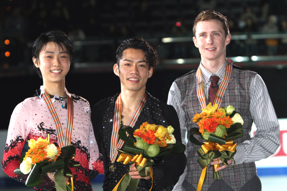 The men's podium at the 2011 Four Continents Championships. From left: Yuzuru Hanyu (2nd), Daisuke Takahashi (1st), Jeremy Abbott (3rd)